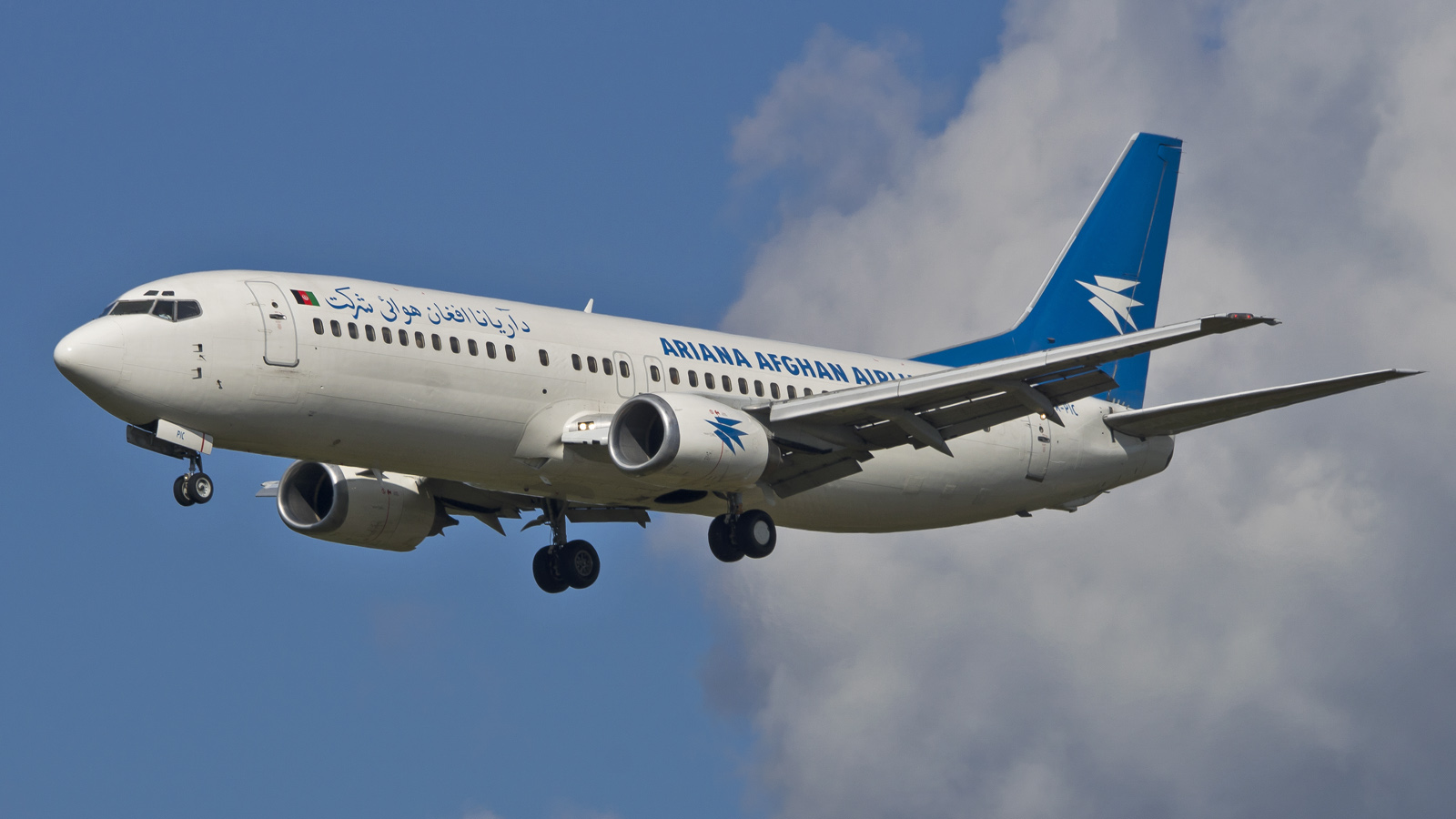 YA-PIC B734 Ariana Afghan Airlines SVO